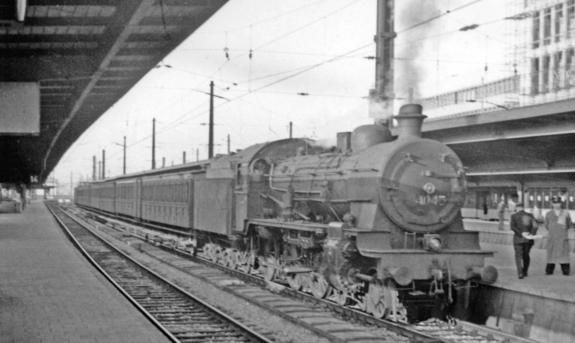 Northbound express at Bruxelles Midi, with a Class 64 4-6-0.